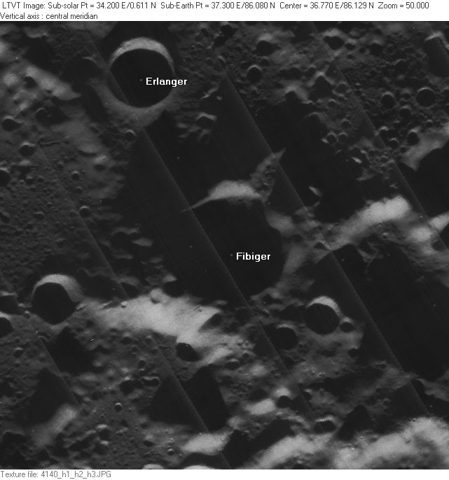 Image of moon craters Erlanger and Fibiger from Lunar Orbiter data (frame LO-IV-140H)